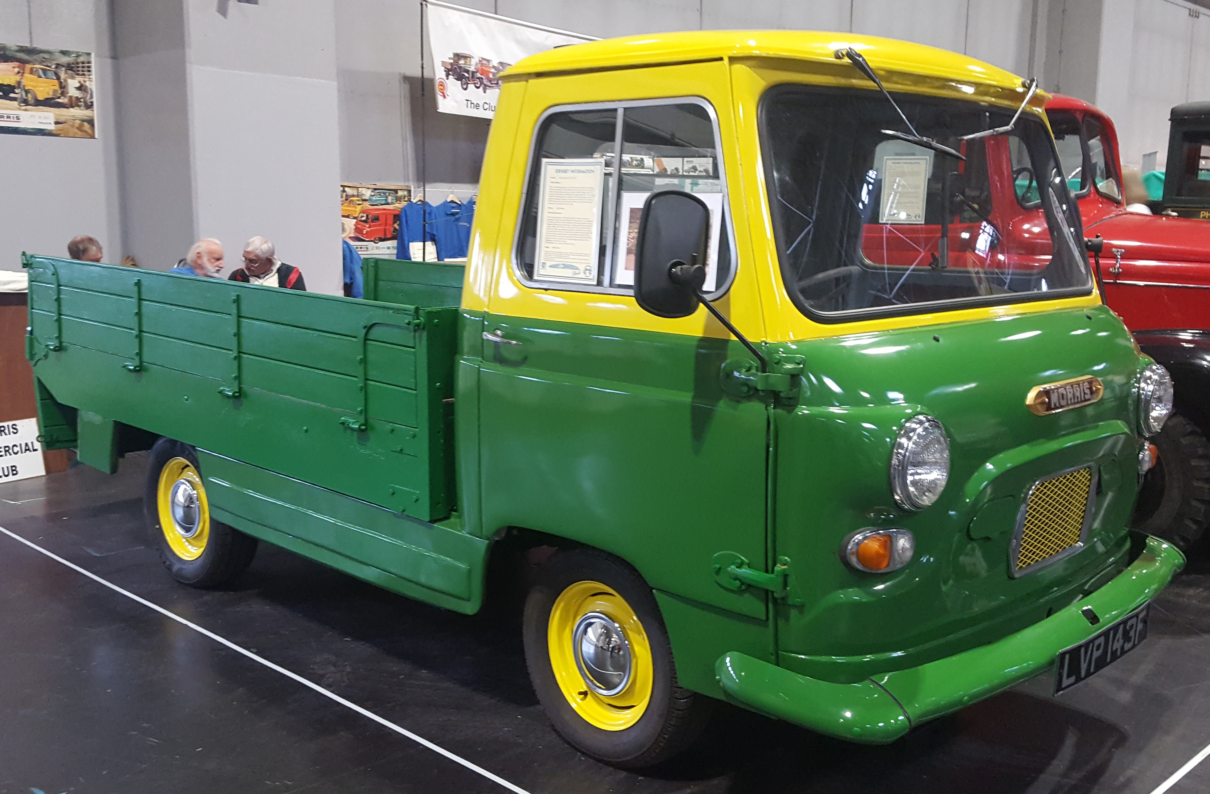 1967 Morris Commercial J4 1.5 NEC Classic Motor Show 2017